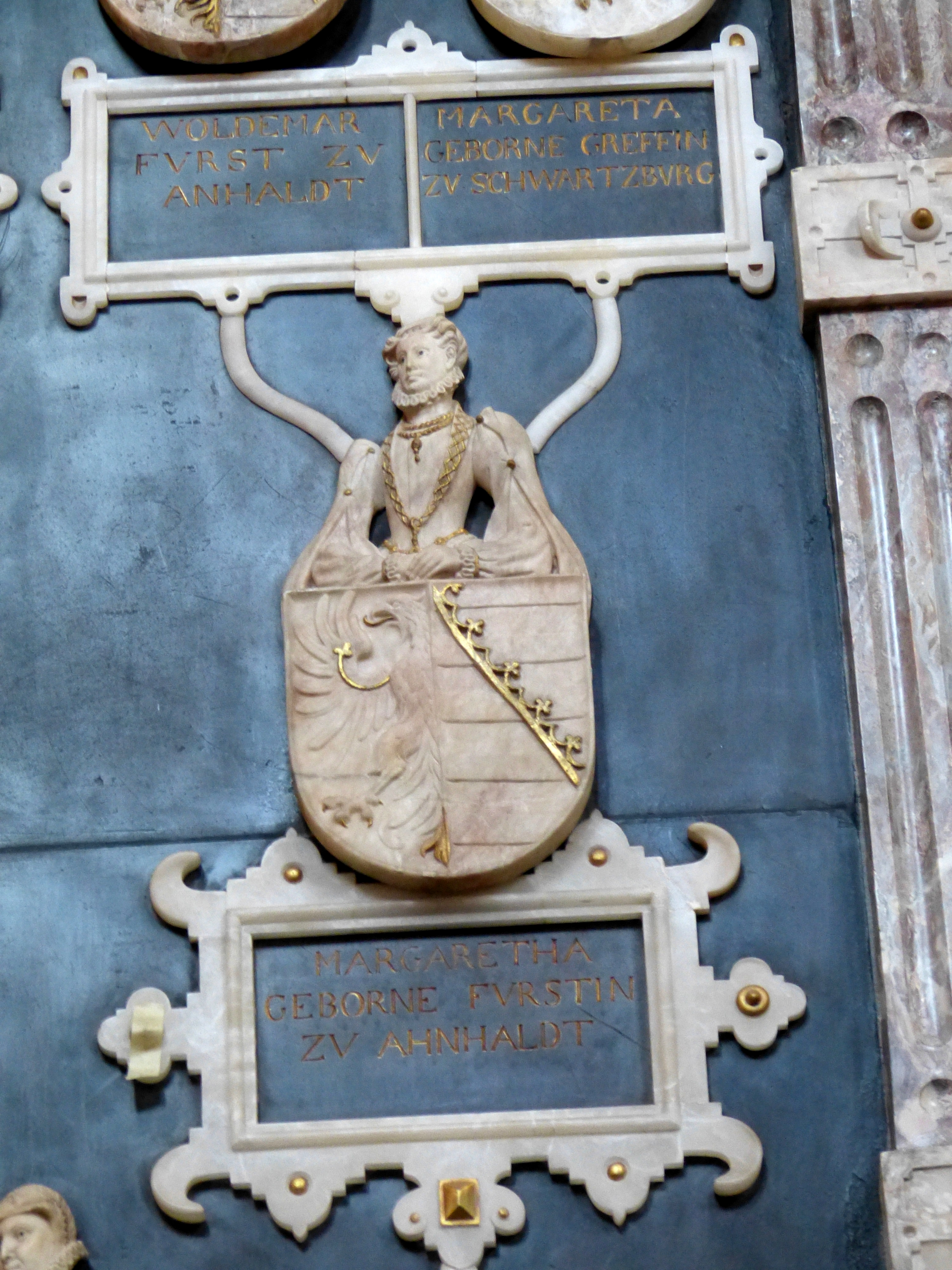 Güstrow ( Mecklenburg-Vorpommern ). Cathedral: Grave ( 1585 ) of Ulrich, Duke of Mecklenburg, by Philipp Brandin - Family tree ( 1599 ) of Ulrich's second wife Anne of Pomerania showing her grandmother, Margarete of Anhalt-Köthen.